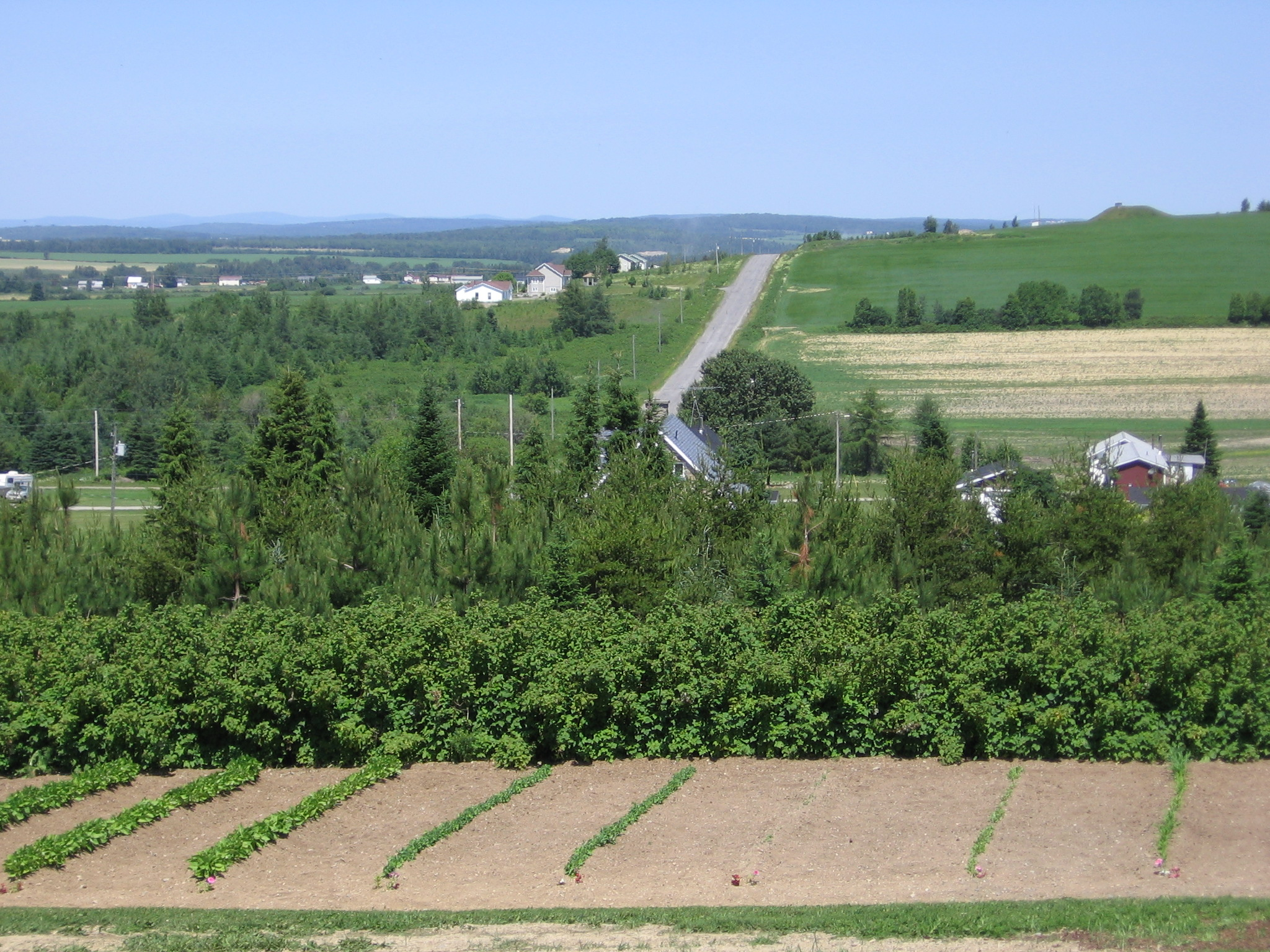 Those bushes in the background are raspberry bushes — they had lovely raspberries later on.